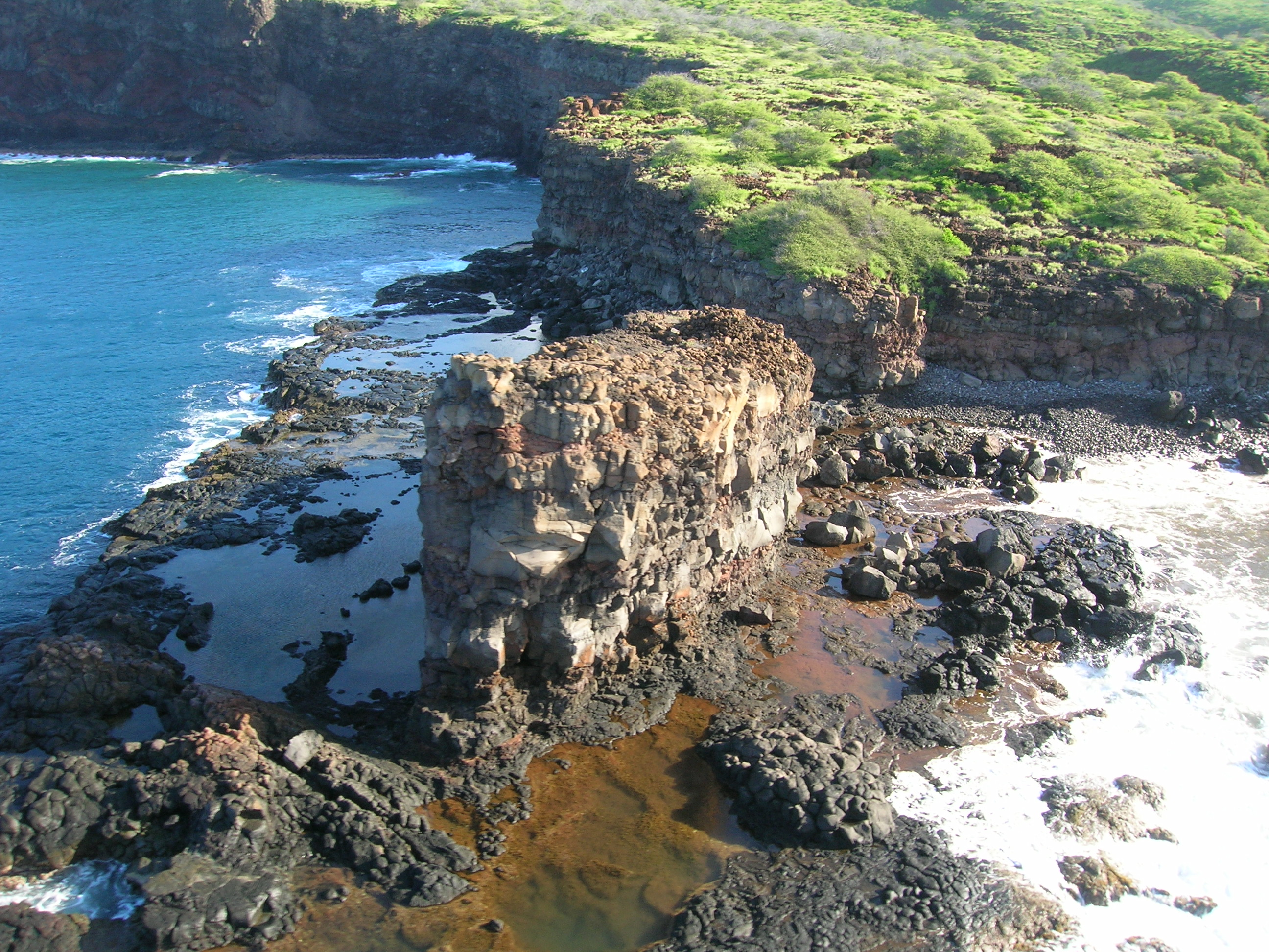 Asclepias curassavica (habitat). Location: Lanai, Kaneapua Rock